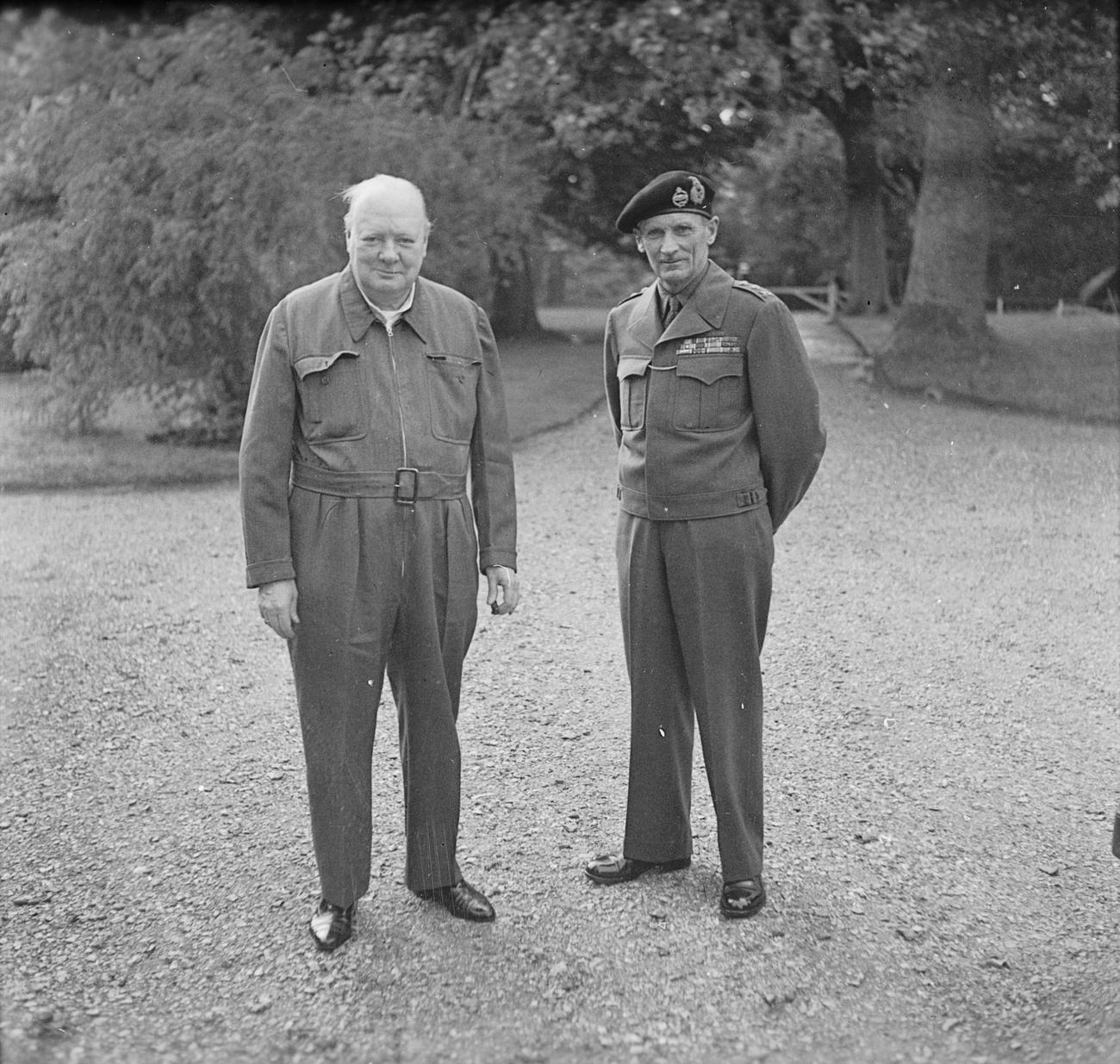 Winston Churchill during the Second World War in the United Kingdom The Prime Minister Winston Churchill, wearing his siren suit, poses with Field Marshal Bernard Montgomery on 19 May 1944 during a tour of forces preparing to invade Normandy.